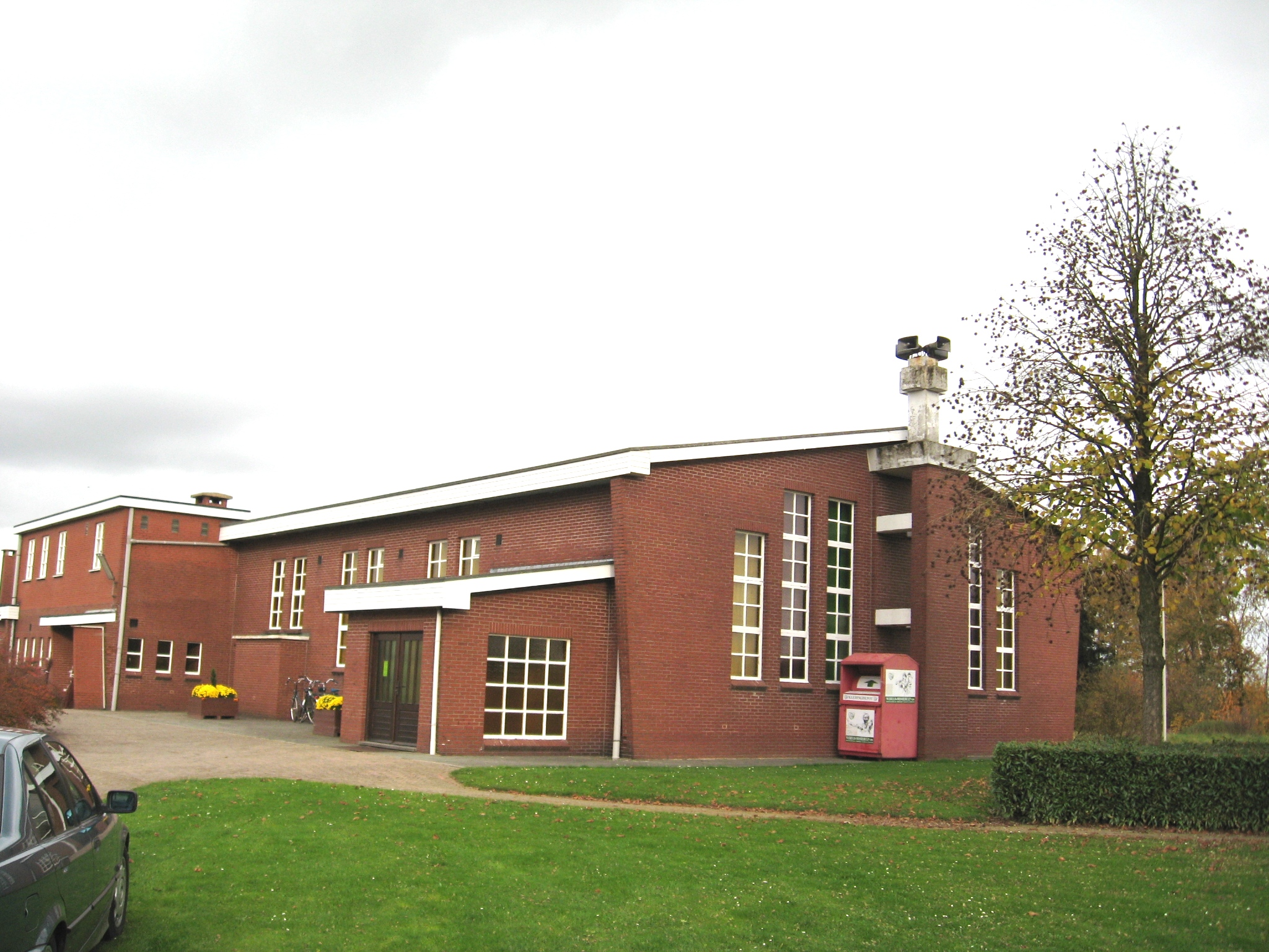 Church of Our Lady in Neeroeteren (Waterloos), Maaseik, Limburg, Belgium